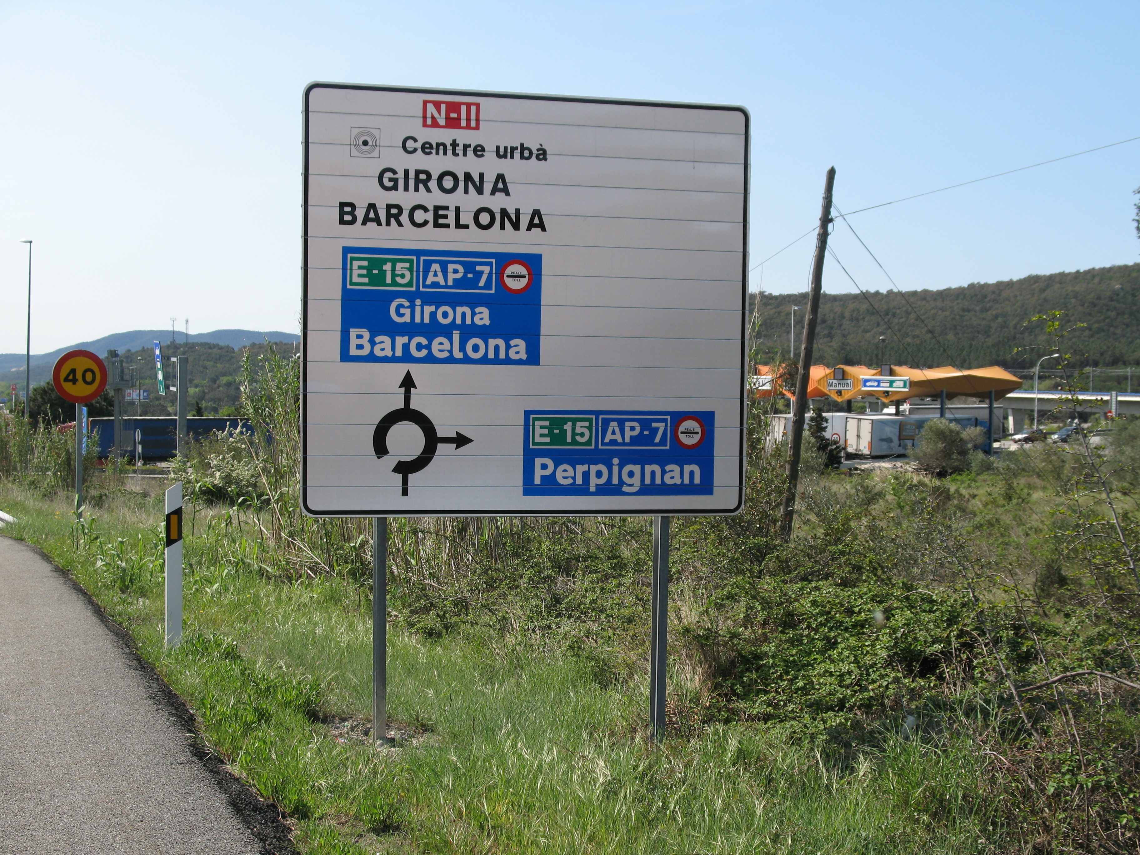 Road sign on the N-II to La Junquera.